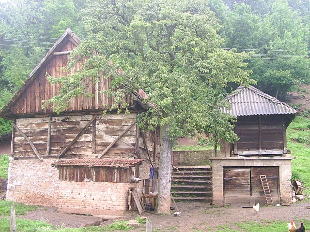 Folk architecture in Breza, BiH